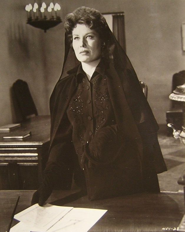 Jean Willes in the American heist film Ocean's 11 (1960) - publicity still (cropped)